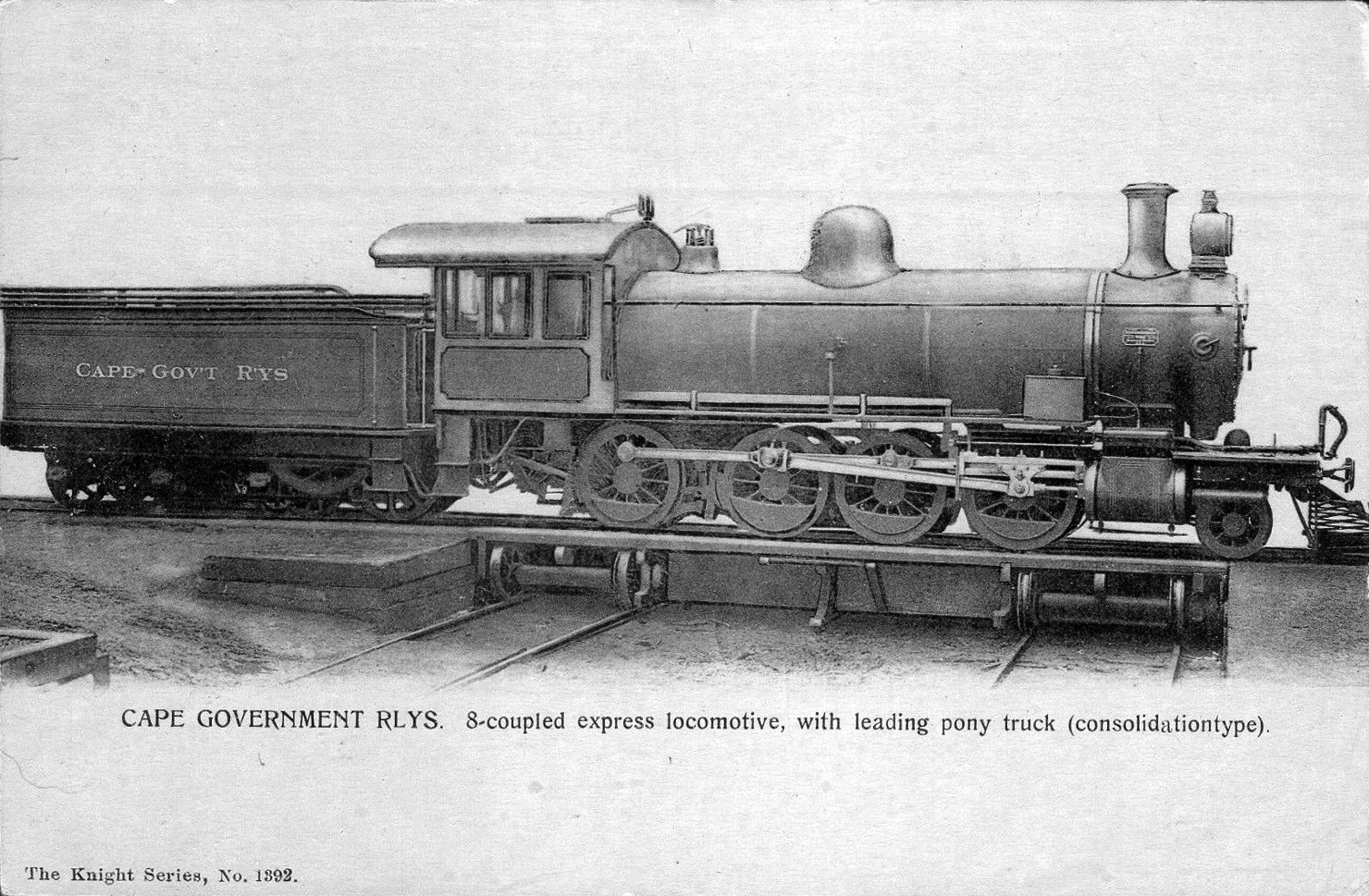 One of 8 delivered by North British in 1904. Classified 8Z by the SAR